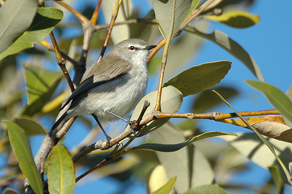 Mangrove Gerygone (Gerygone levigaster, cat.)